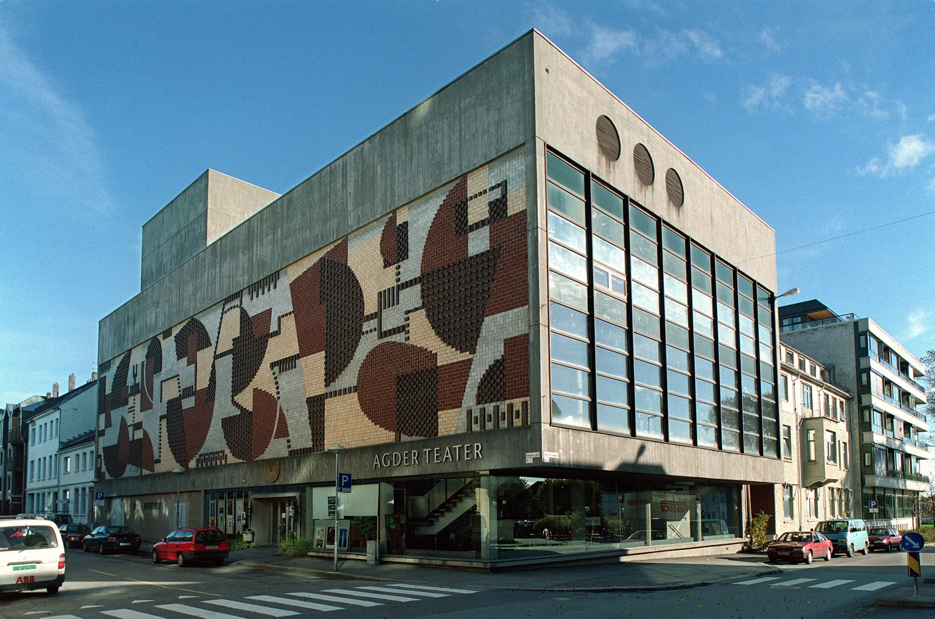 (Agder Theatre Fasade, Foto: Audun Rossvoll)